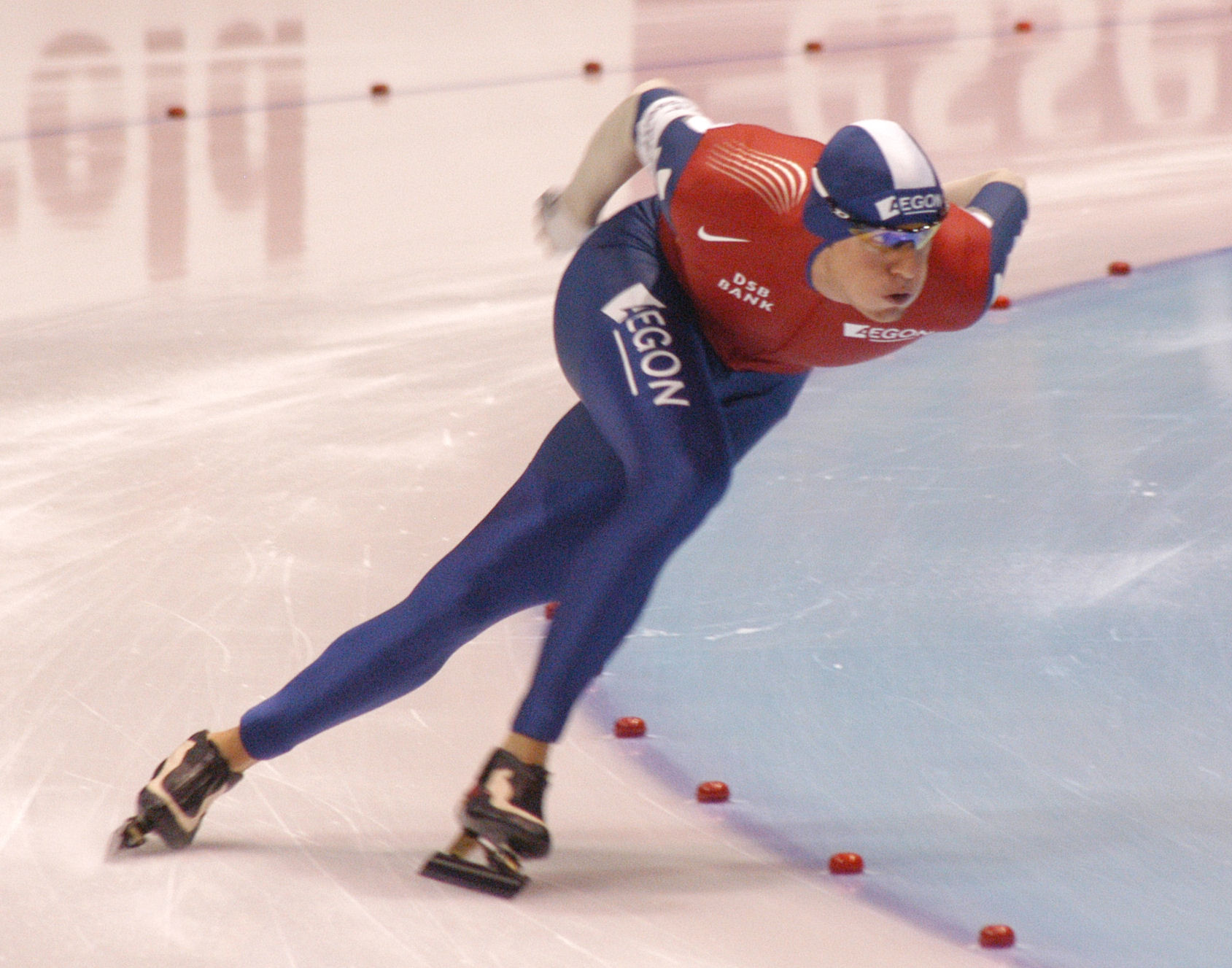 Simon Kuipers (NED) in action at a World Cup Speed Skating in Heerenveen, the Netherlands.